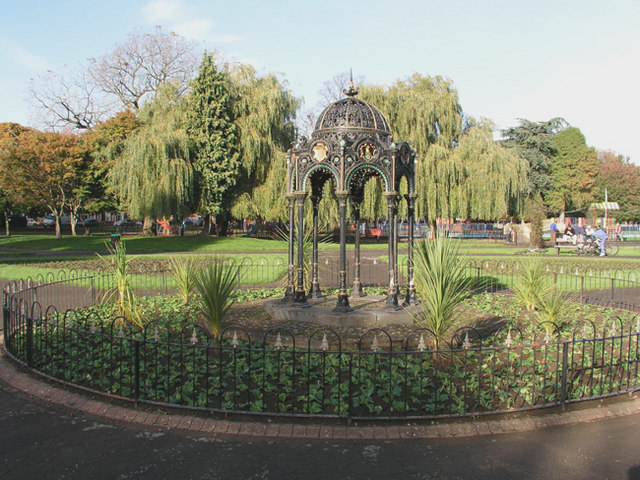 Victoria Park, Cardiff A splendid oasis away from the city bustle. And with a wonderful play area and paddling pool for the kids.